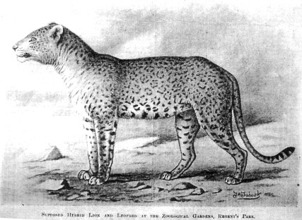 Frohawk's drawing of the supposed lion-leopard at London Zoo, 1908, claimed to be a Congolese Spotted Lion and later revealed to be a lijagulep. Lijagulep = male lion x (a jagulep or lepjag) = male lion x ((male jaguar x leopardess) or (male leopard x female jaguar)) = Panthera leo x ((Panthera onca x Panthera pardus) or (Panthera pardus x Panthera onca))